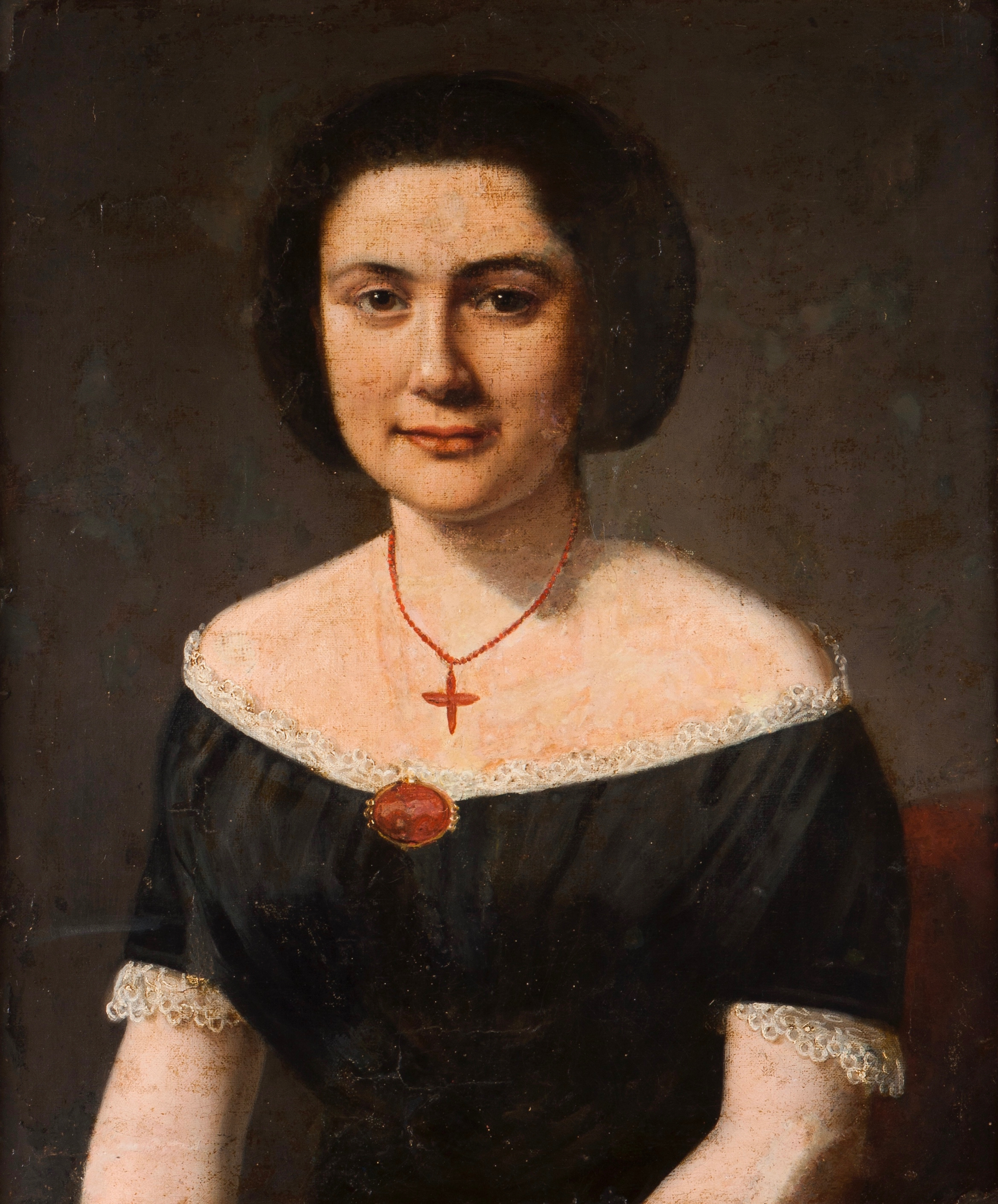 Portrait painting of Maria Feliciana Ramalho Ortigão (1862-1947)